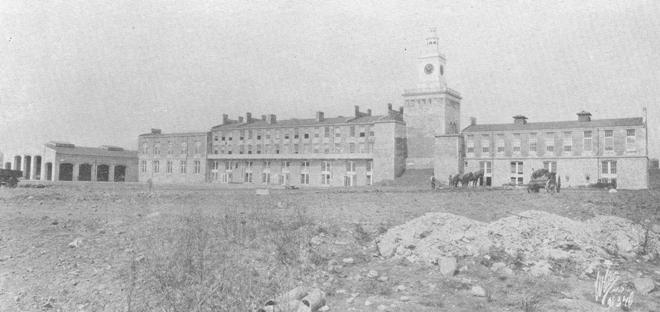 The back fields of Poly Prep seen in 1919. The Chapel, under the clock tower, wasn't built yet (c.1922), and the "field house" on the far left had not yet been converted to the gym which is there today (c.1930). Poly Prep had horses on campus to help cut the grass. - From the collections of the Dyker Heights Historical Society. user:cjz208, of the Dyker Heights Historical Society, is the copyright holder of this work, and has published or hereby publishes it under the following license